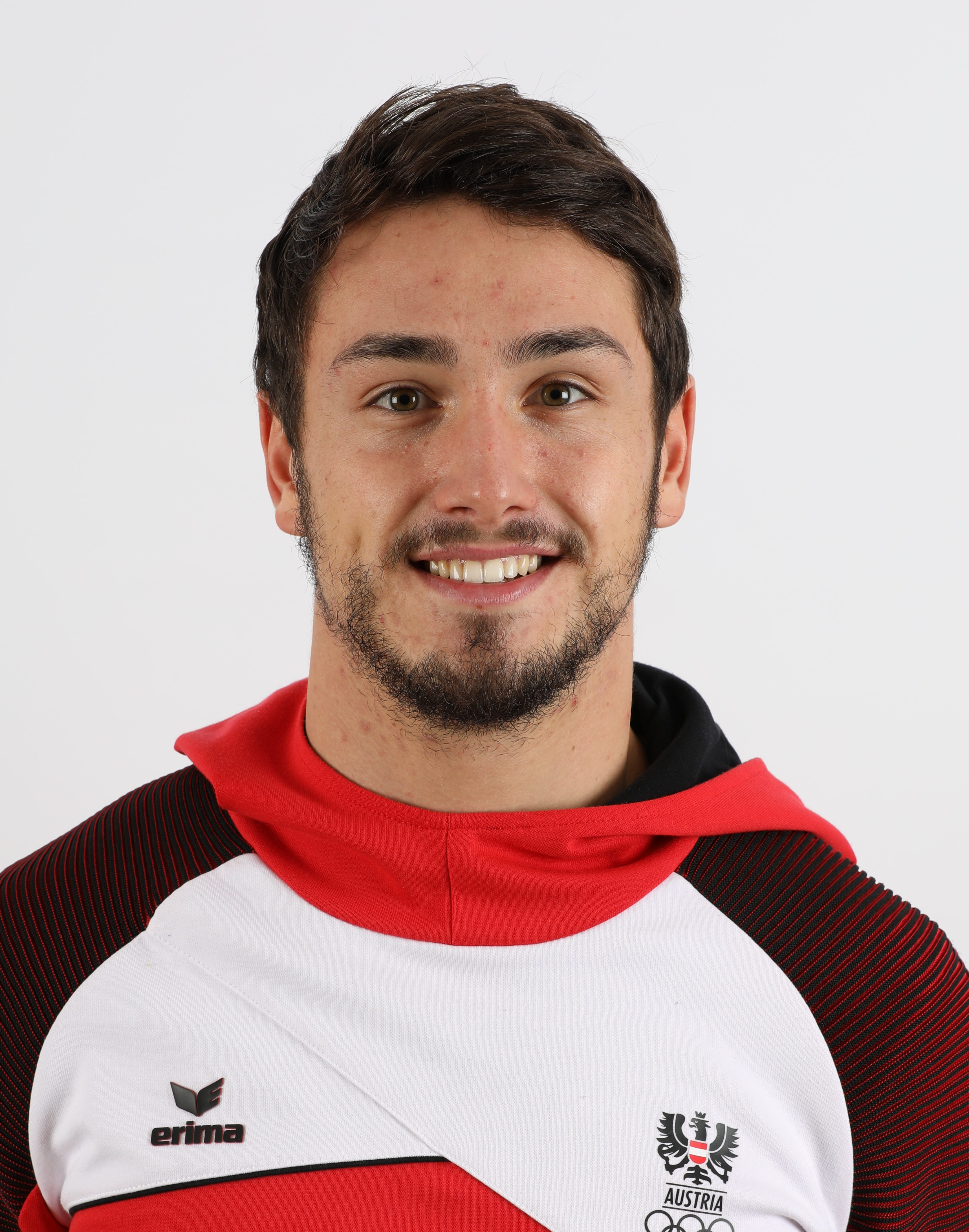 Athletes' photo project at the 2018/19 Innsbruck-Igls Luge World Cup: Lorenz Koller (Austria)